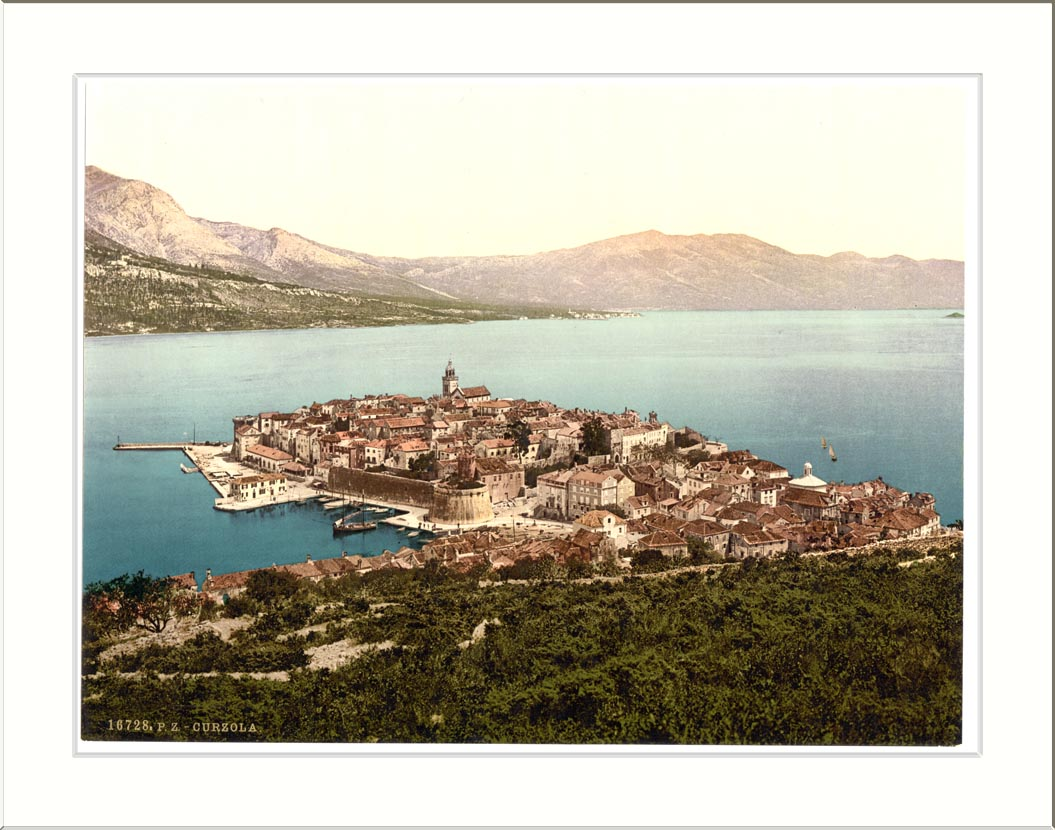 Curzola general view Dalmatia Austro-Hungary